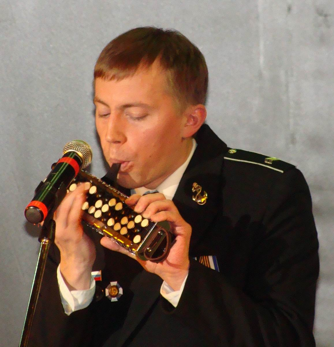 Melodicas